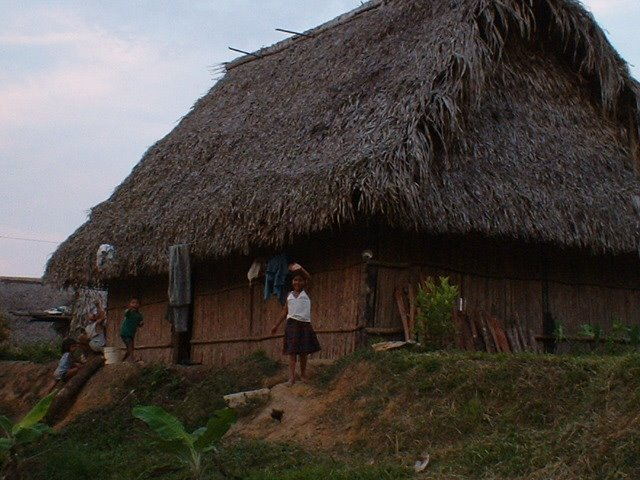 Indian hut with a roof of manaca palm leaves, typical of the Golfo Dulce área, Guatemala